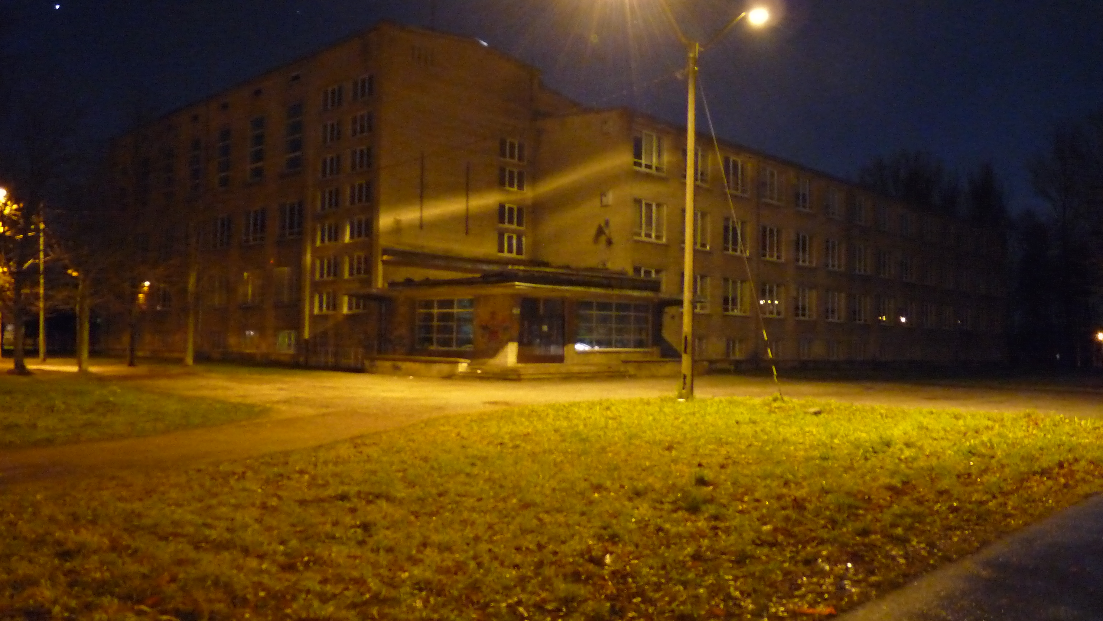 Sõle basic school in Tallinn, Estonia